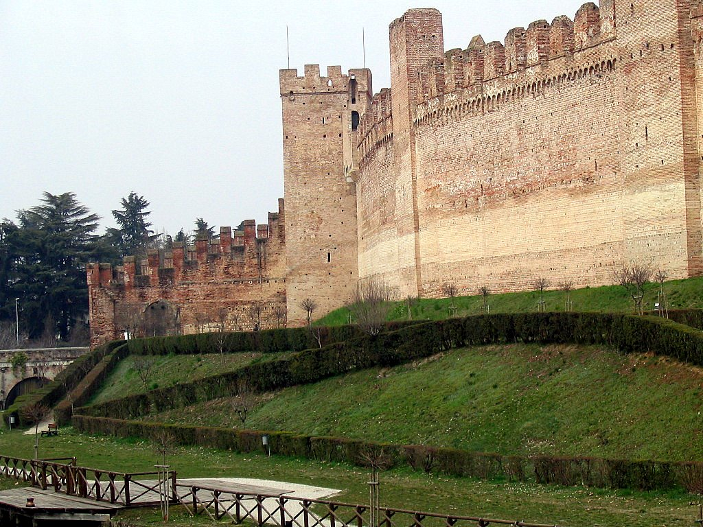 A view of the citadel from outside the walls looking towards the Vicenza gate